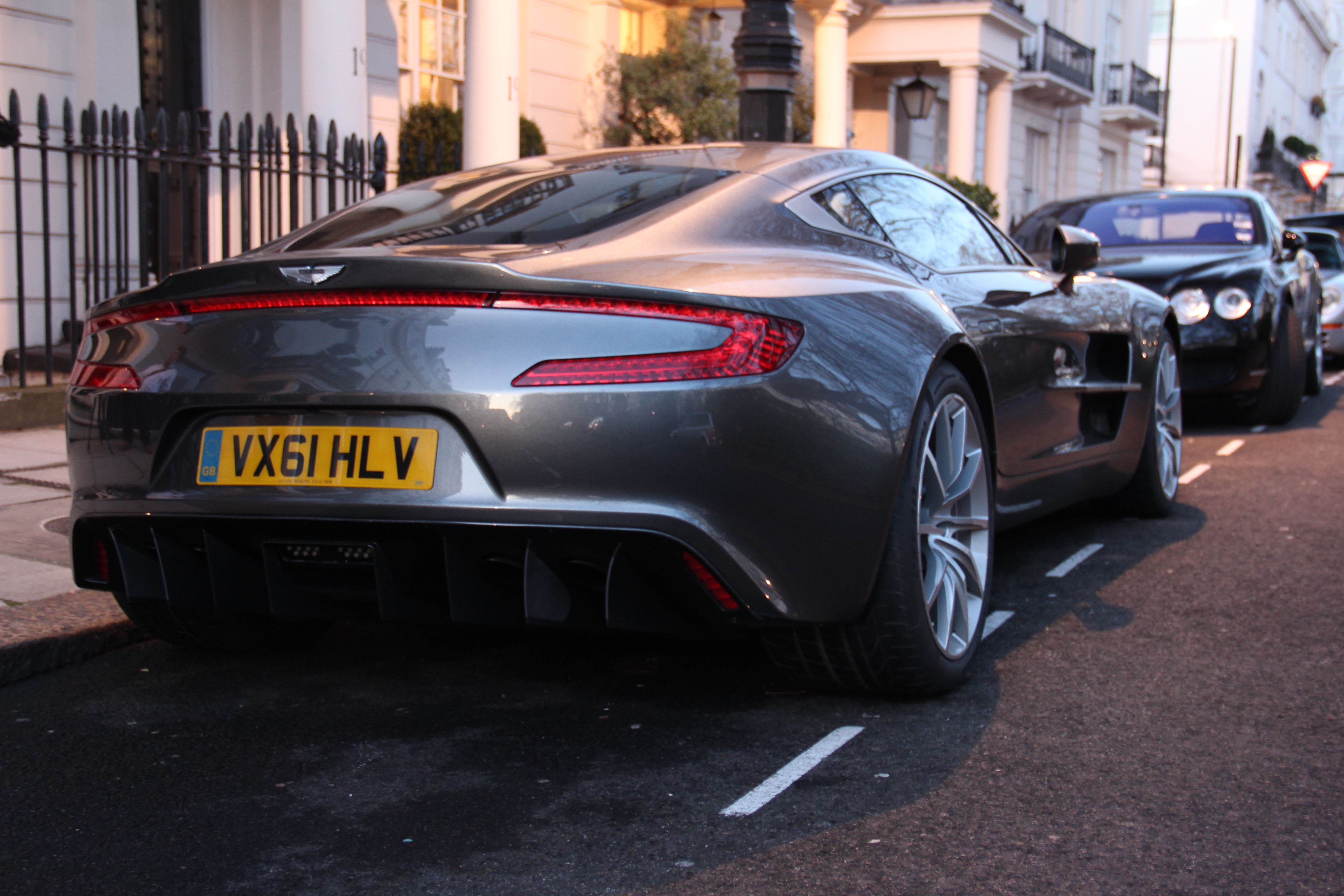 aston martin one-77